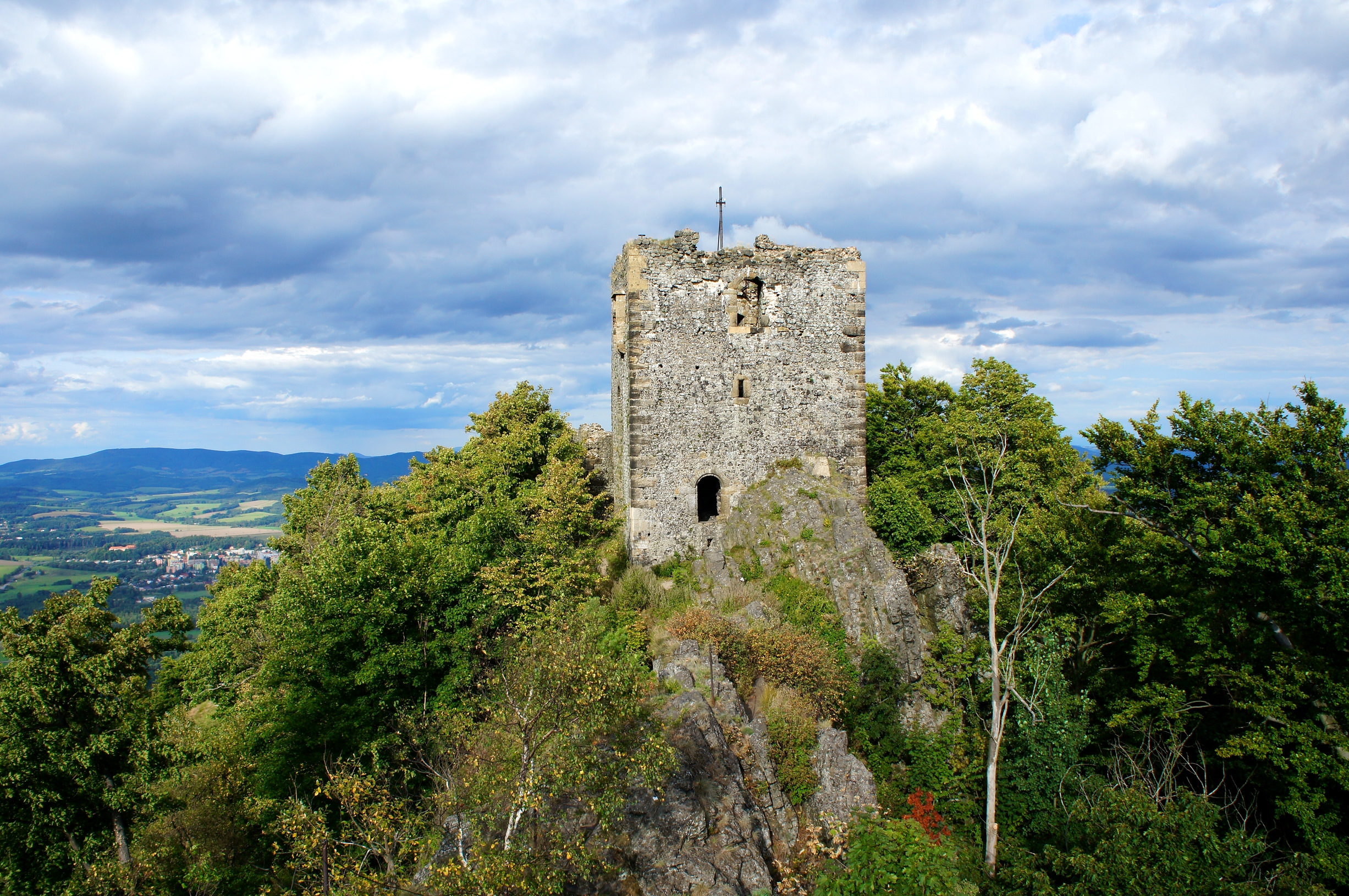 Remains of the residential tower of the Ralsko Castle (Liberec Region, Czechia).